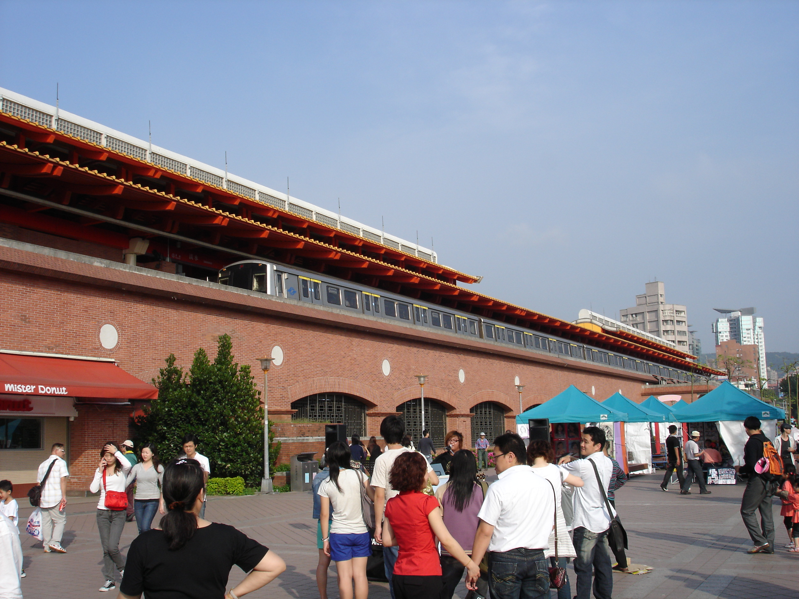 The Taipei Metro Tamsui Station.